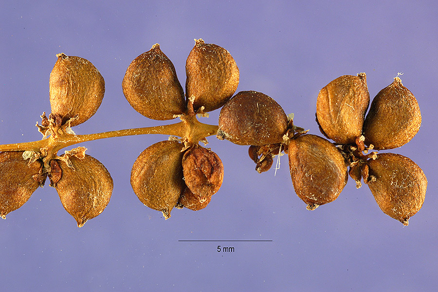 Seeds of Stuckenia pectinata